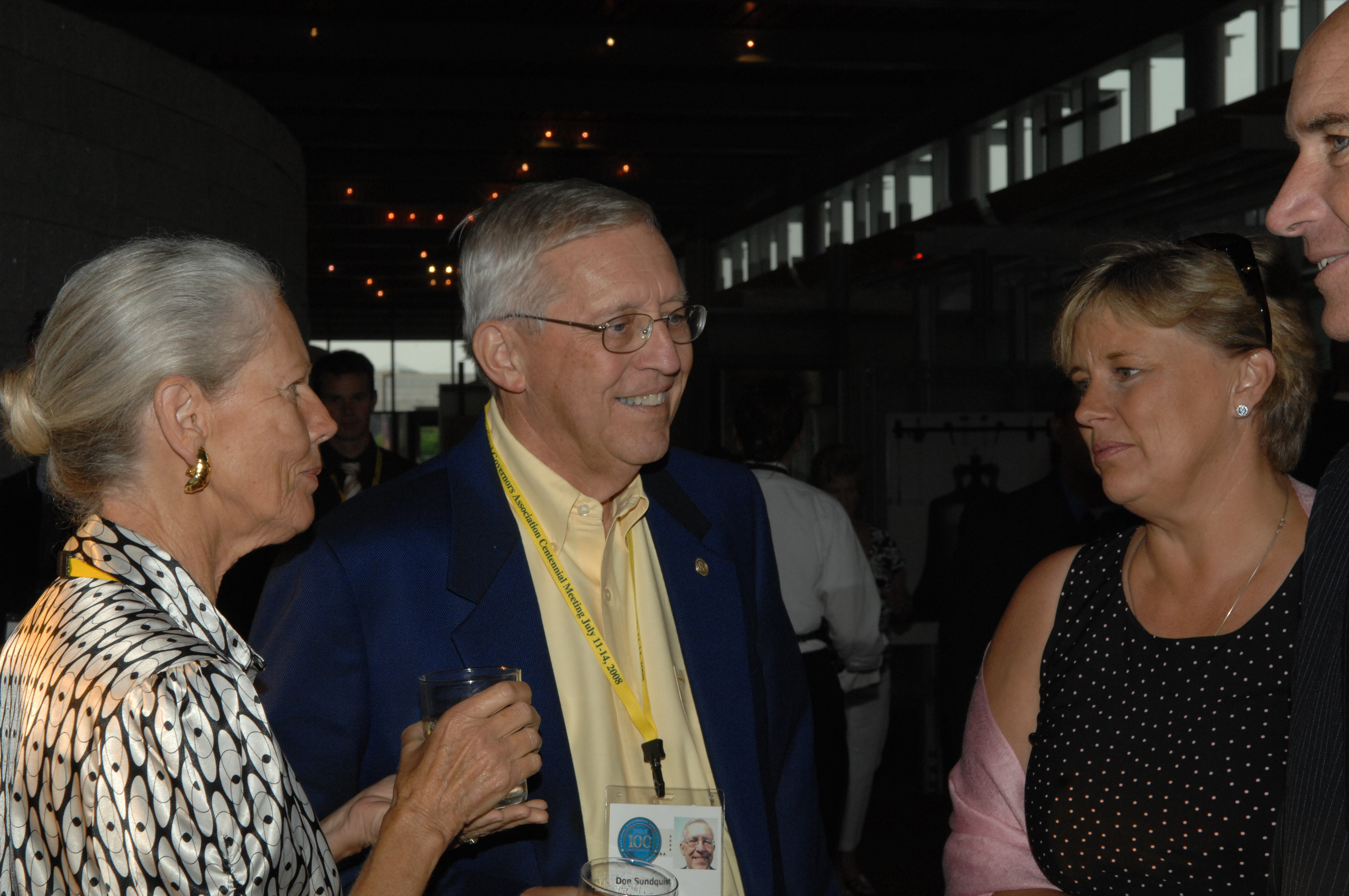 [Assignment: 48-DPA-07-13-08_SOI_K_Philly_Rec] Reception at Independence National Historical Park for attendees at the National Governors Association Centennial Meeting in Philadelphia, Pennsylvania. Secretary Dirk Kempthorne [and Independence National Historical Park Deputy Superintendent Darla Sidles delivered official remarks; and the Secretary conversed with fellow NGA attendees, among them Pennsylvanina Governor Edward Rendell, Vermont Governor James Douglas, Wyoming Governor Dave Freudenthal, Guam Governor Felix Camacho, former Tennessee Governor Don Sundquist, and former Michigan Governor John Engler.] [48-DPA-07-13-08_SOI_K_Philly_Rec_IOD_9291.JPG], 7/13/2008